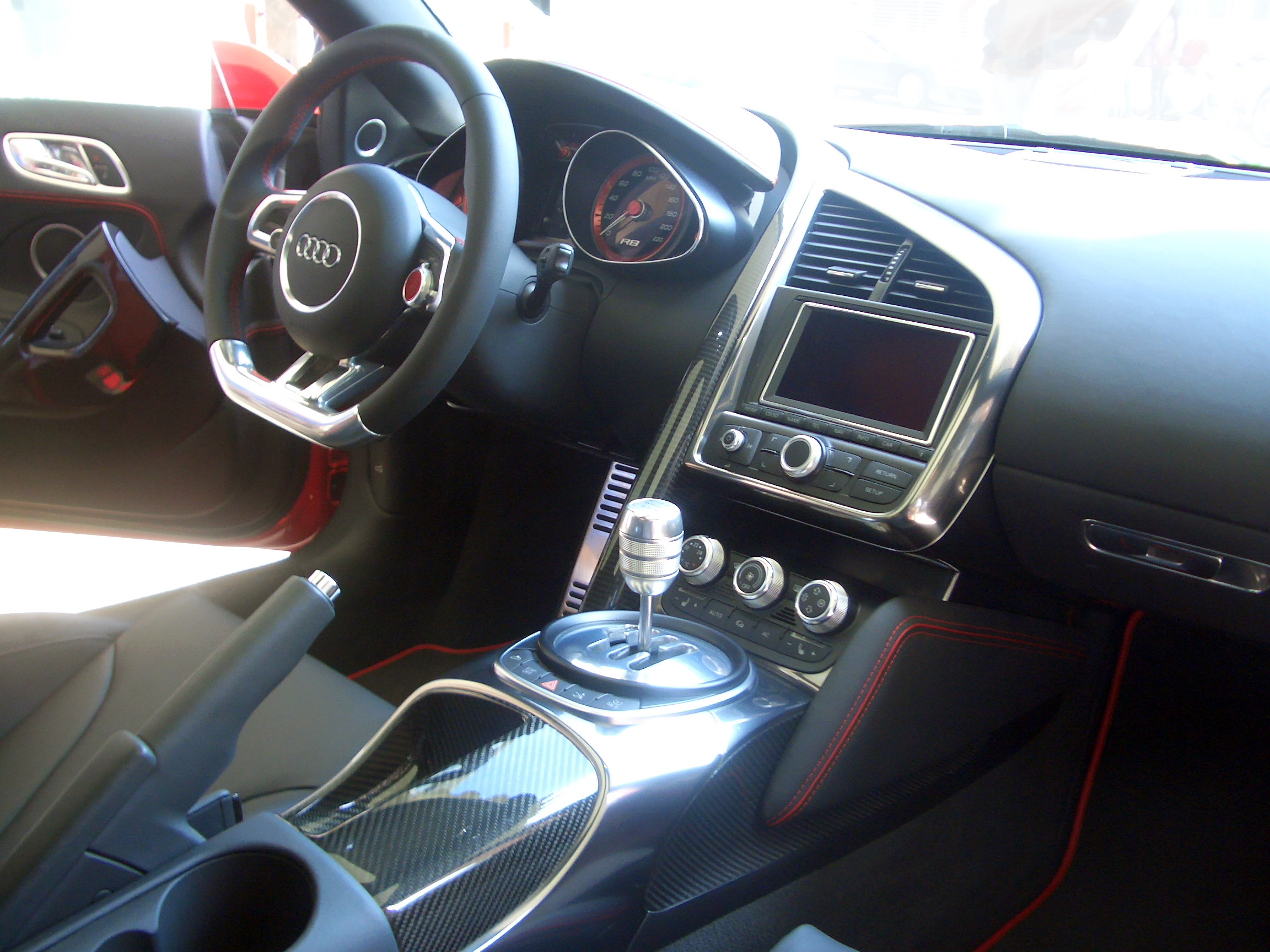 Audi R8 V12 TDI Concept